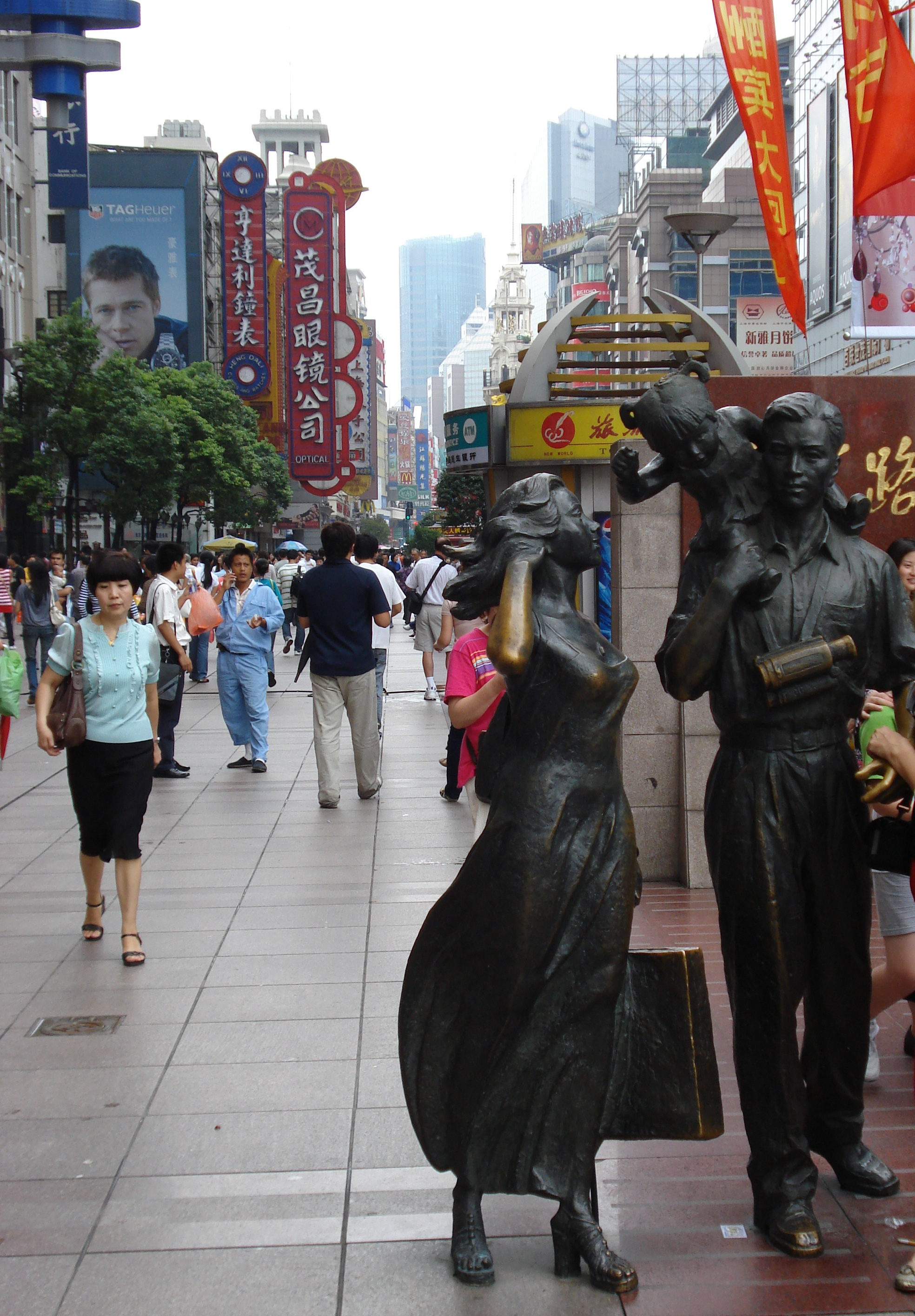 Shanghai - Nanjing merchant promenade